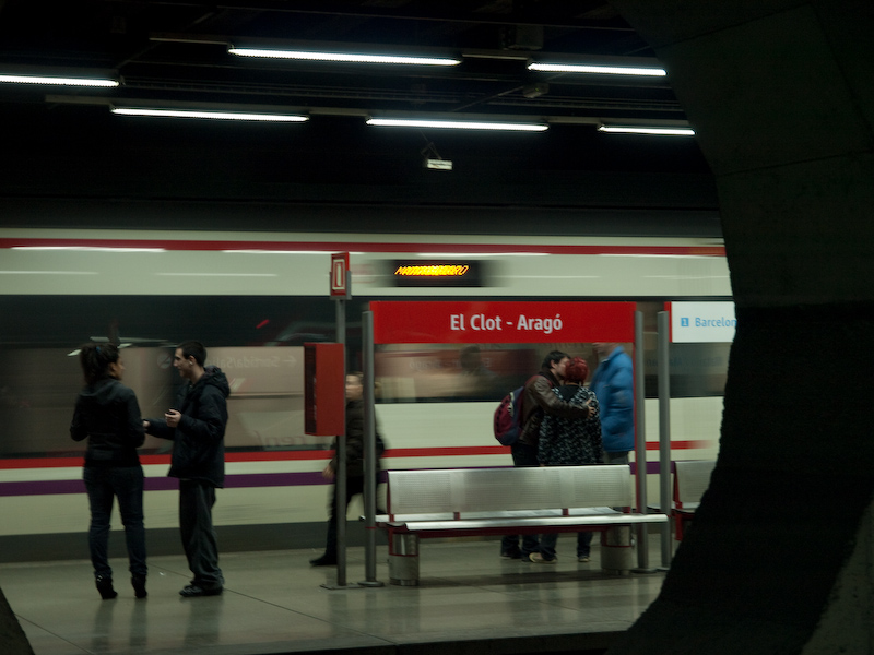 Platform of Clot-Arago train station, Barcelona.